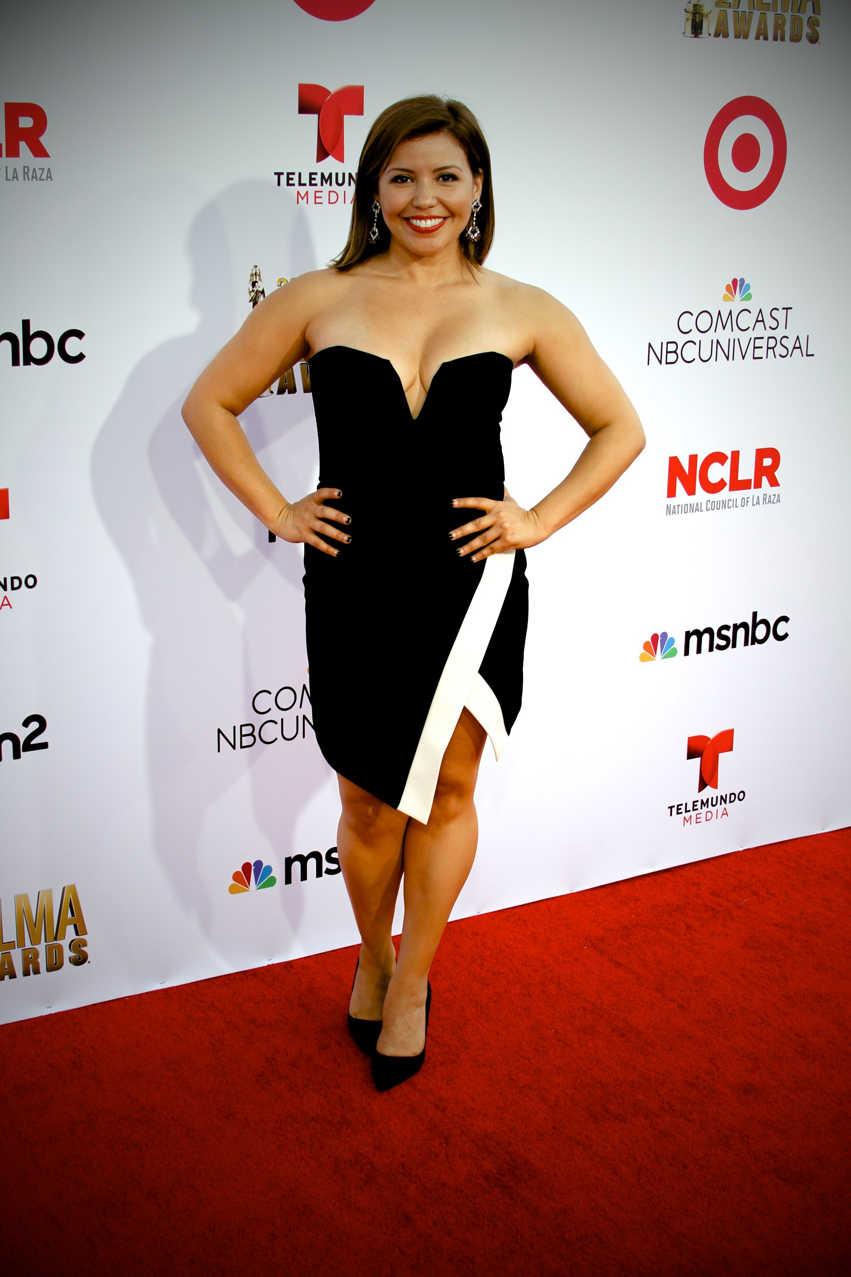 Actress Justina Machado at the 2014 Alma Awards